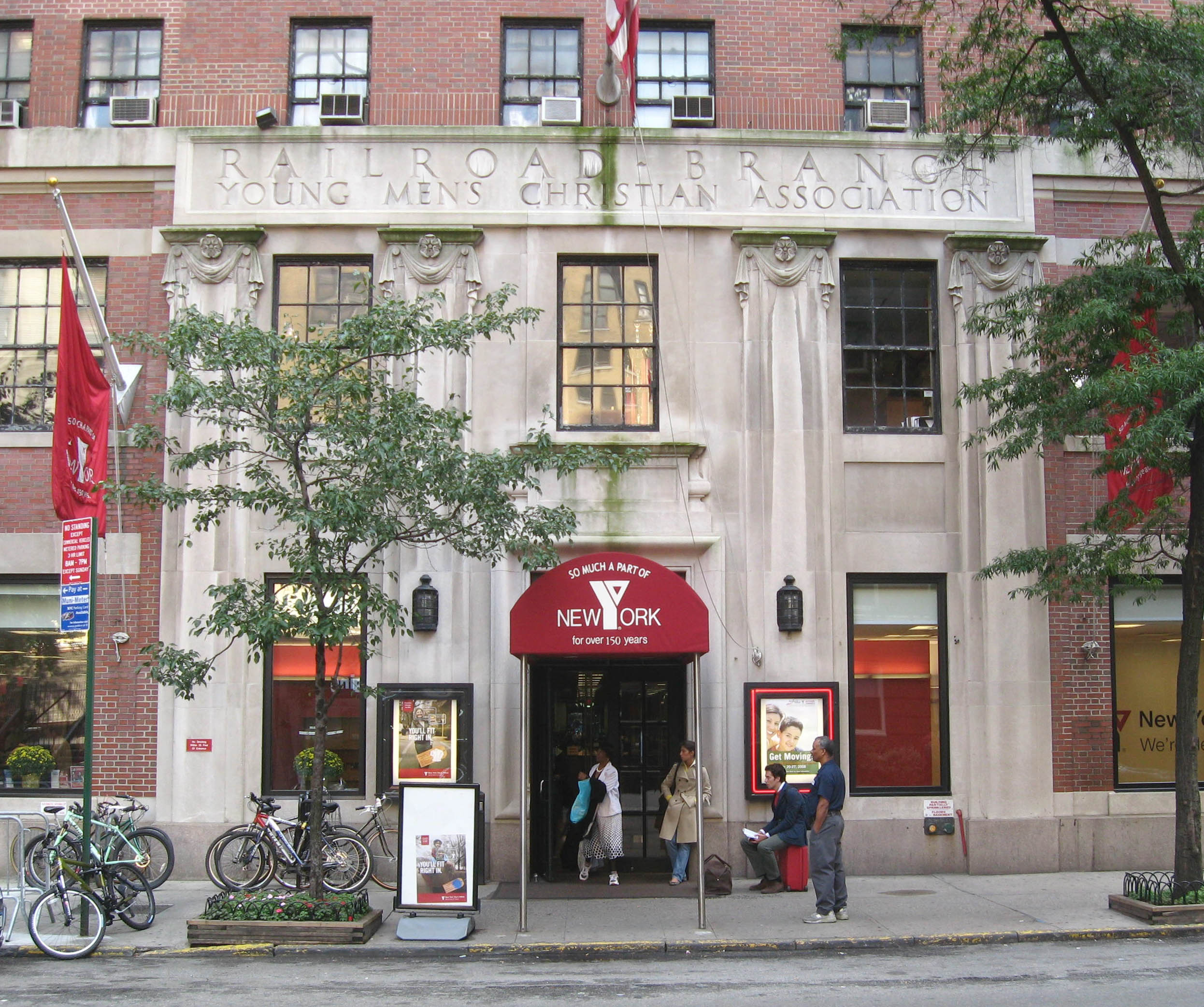 Looking south across East 47th Street, Manhattan, at the Vanderbilt YMCA on a sunny afternoon